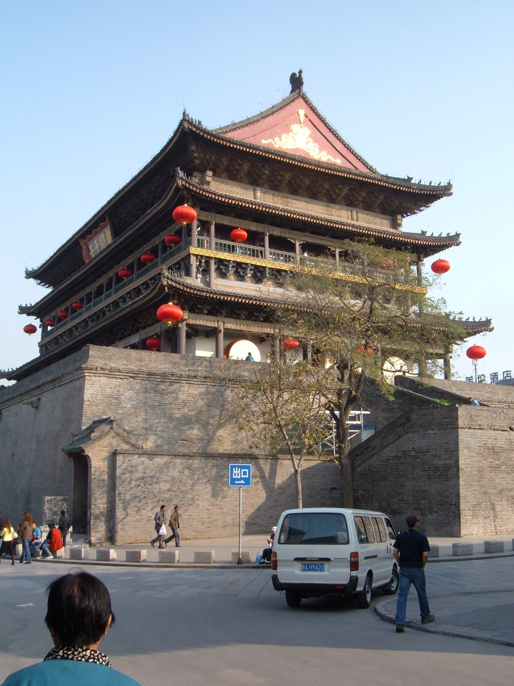 The Xi'an Drum Tower seen from the northwest in Xi'an, PRC.